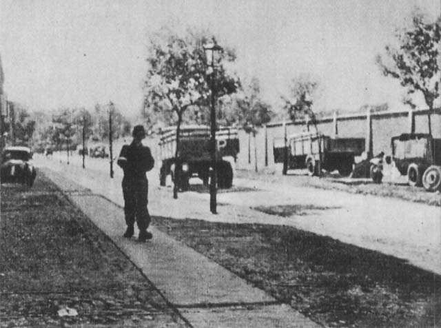 WarsawUprising: German cars and trucks taken over by Radosław Regiment are parked at Mireckiego Street, along the wall of the "Skry" football field.